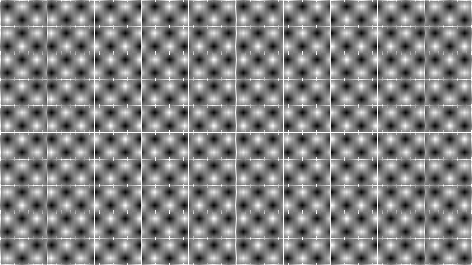 Full HD visualisation of exactly one million black dots (pixels) in 100 groups of 10000. For comparison, each tile with white or grey background contains 1000 black dots.